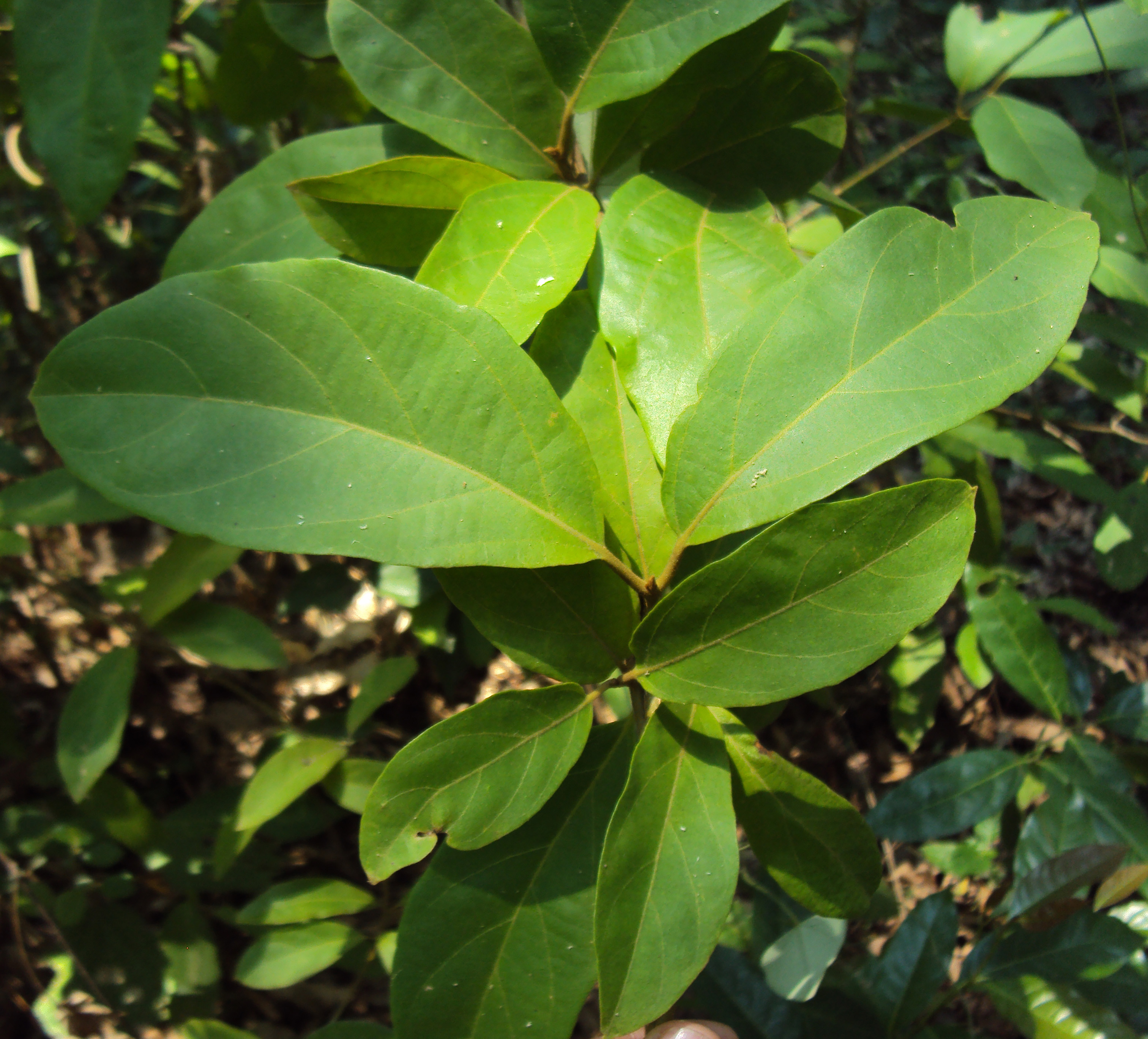 Sphenodesme paniculata